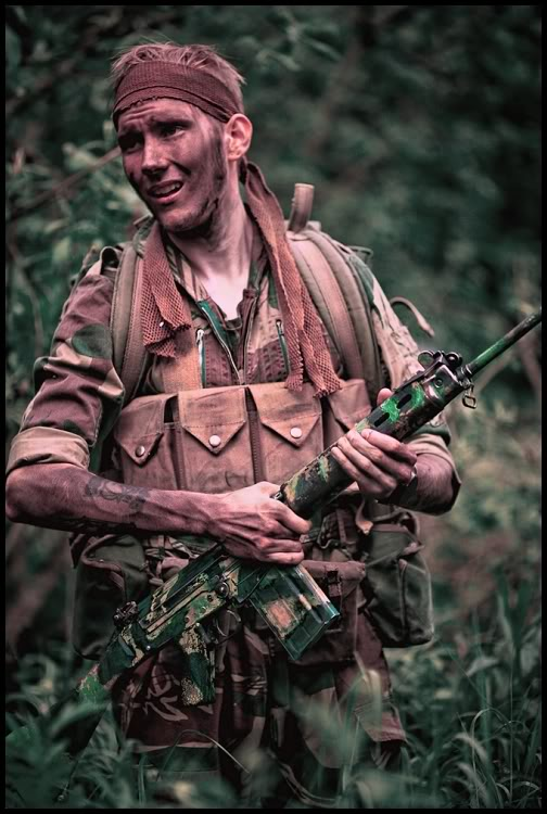 A modern re-enactor, Stefan Melander, simulates a Rhodesian Light Infantry soldier from 1979, wearing appropriate uniform and carrying appropriate gear. Photograph taken by Samu Hupli.